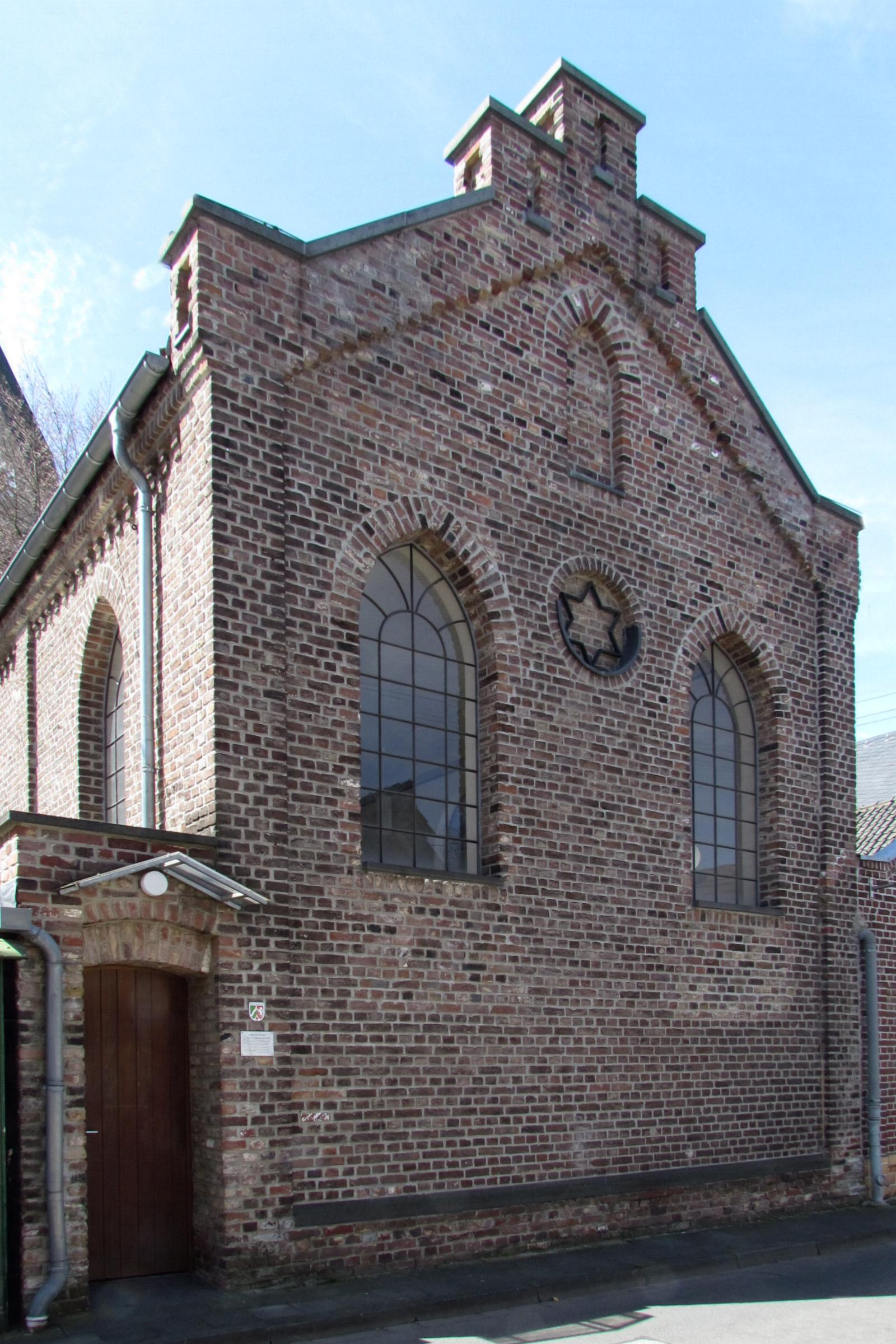 This is a photograph of an architectural monument.